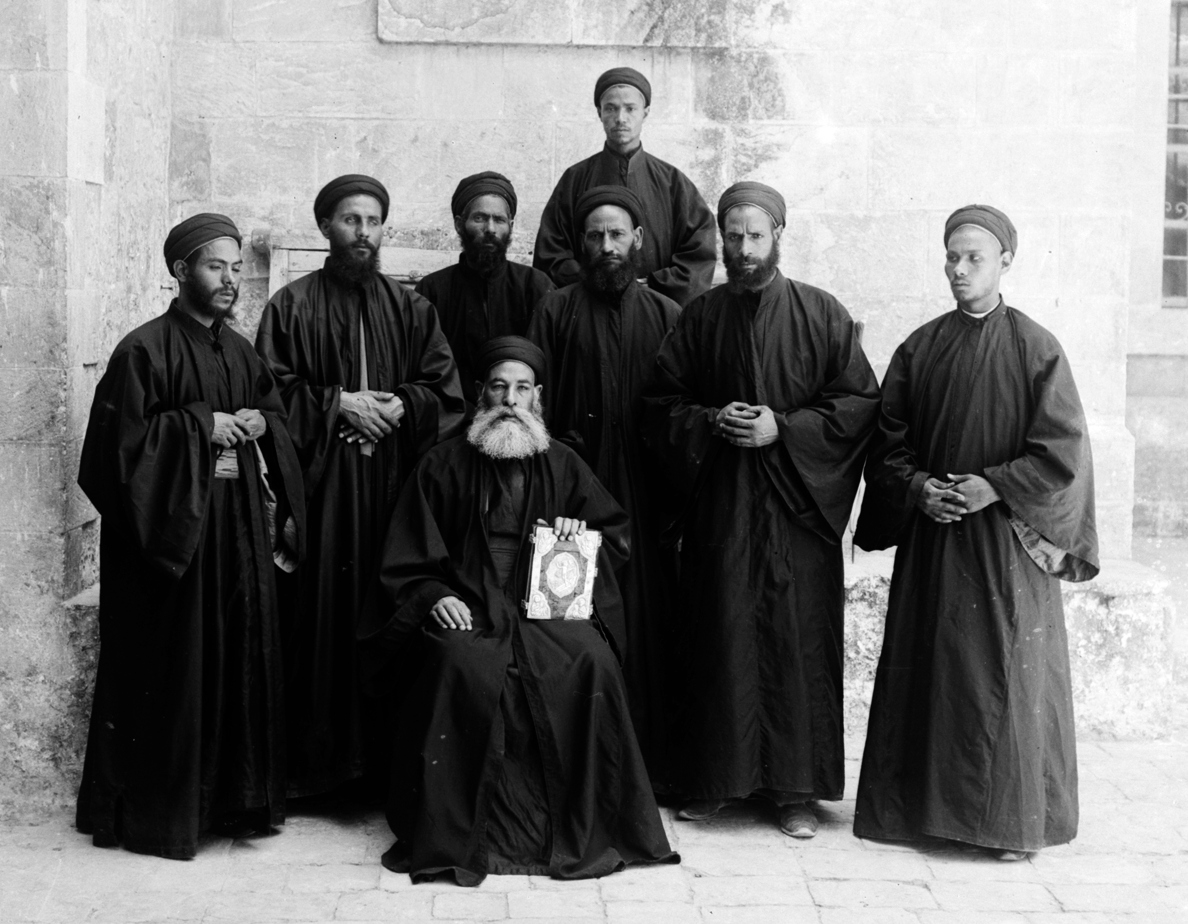 Costumes and characters, etc. Coptic monks.